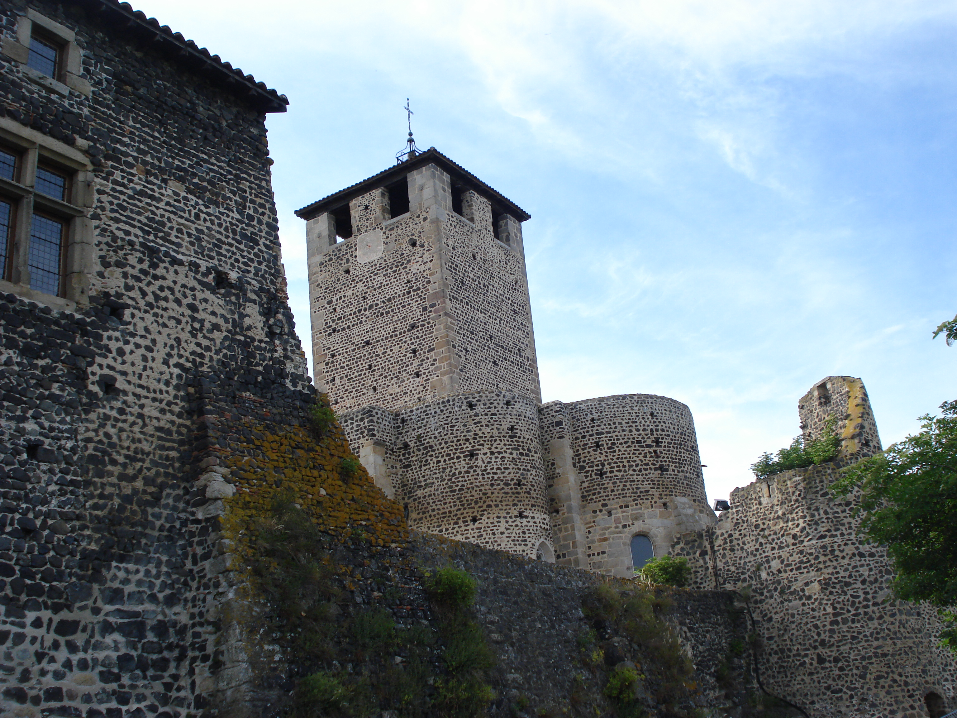 Montverdun (Loire, Fr), church and city walls